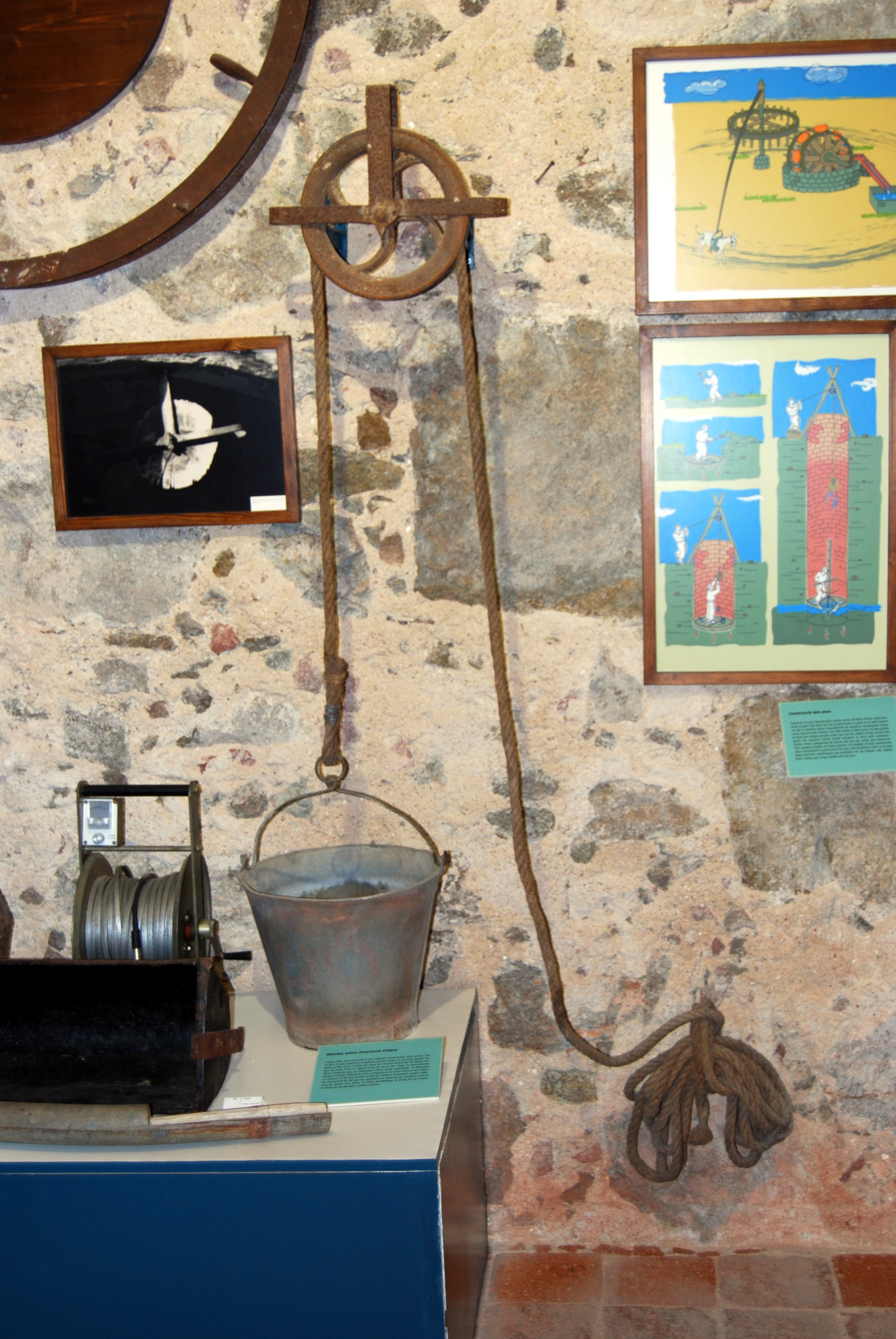 Pulley at the Museu de la Mina Vella, at Vilassar de Mar, el Maresme (Catalunya)